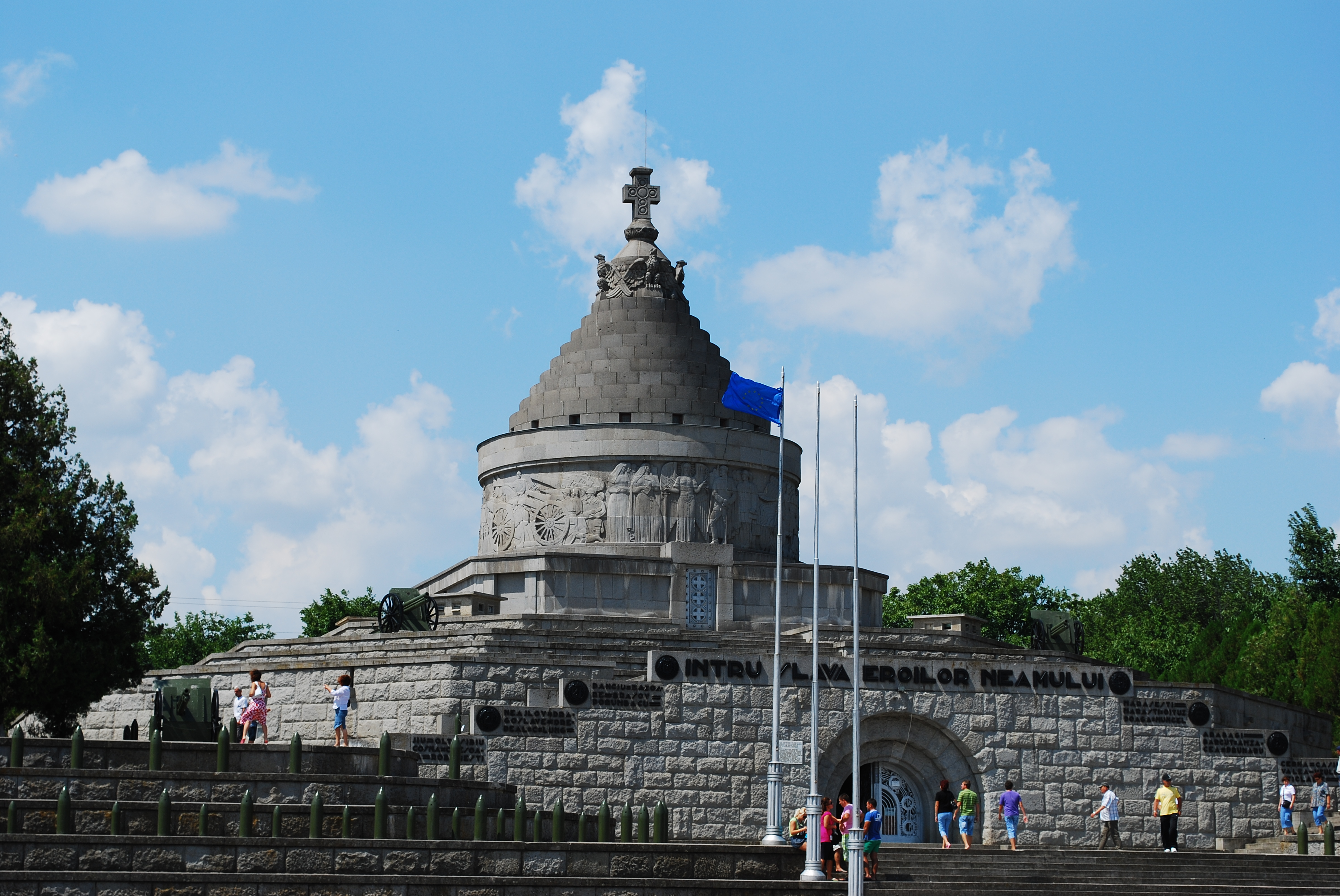 Mărăşeşti mausoleum, Vrancea County, Romania